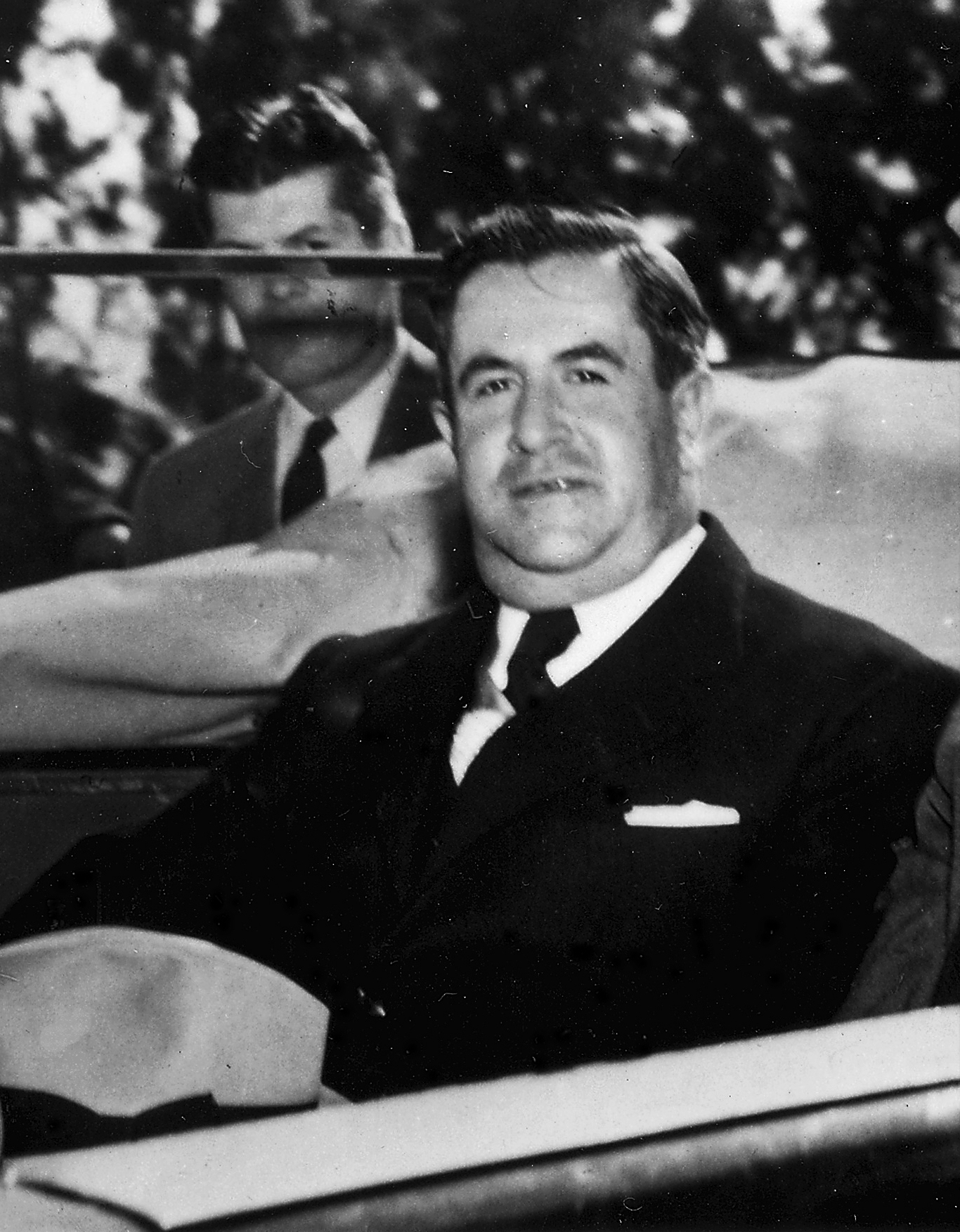 Photograph of Mexican President, Manuel Ávila Camacho, from the Franklin D. Roosevelt Library. Black coloring using "Paint Brush", increased shadow, and cropping performed using Photo Editor at